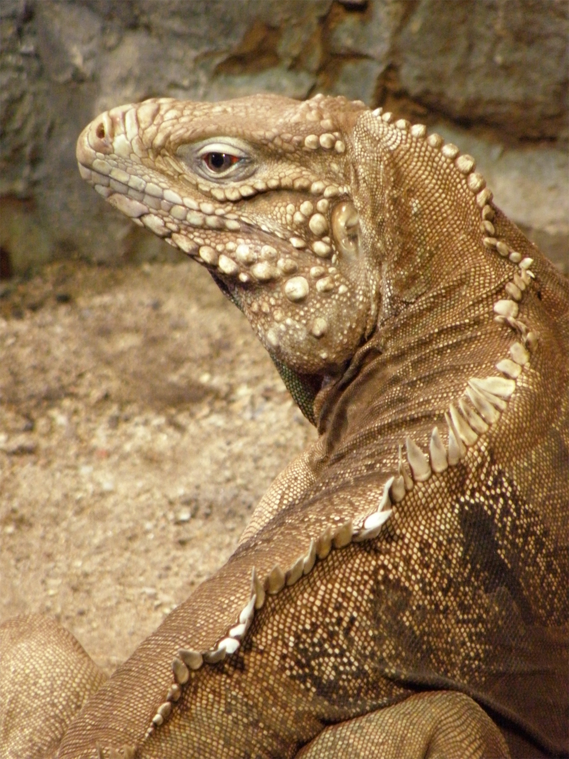 Cyclura nubila in ZOO Děčín, 28th September 2009